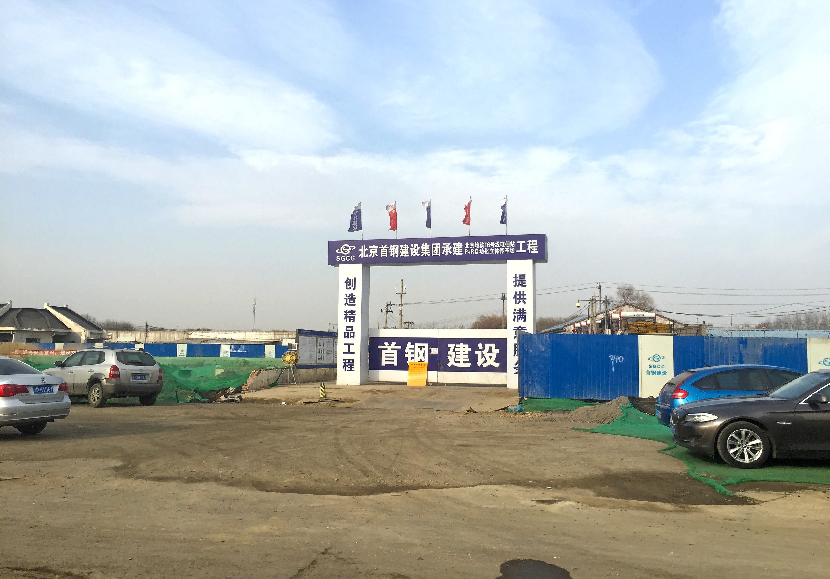 Tundian Station will establish a P+R.